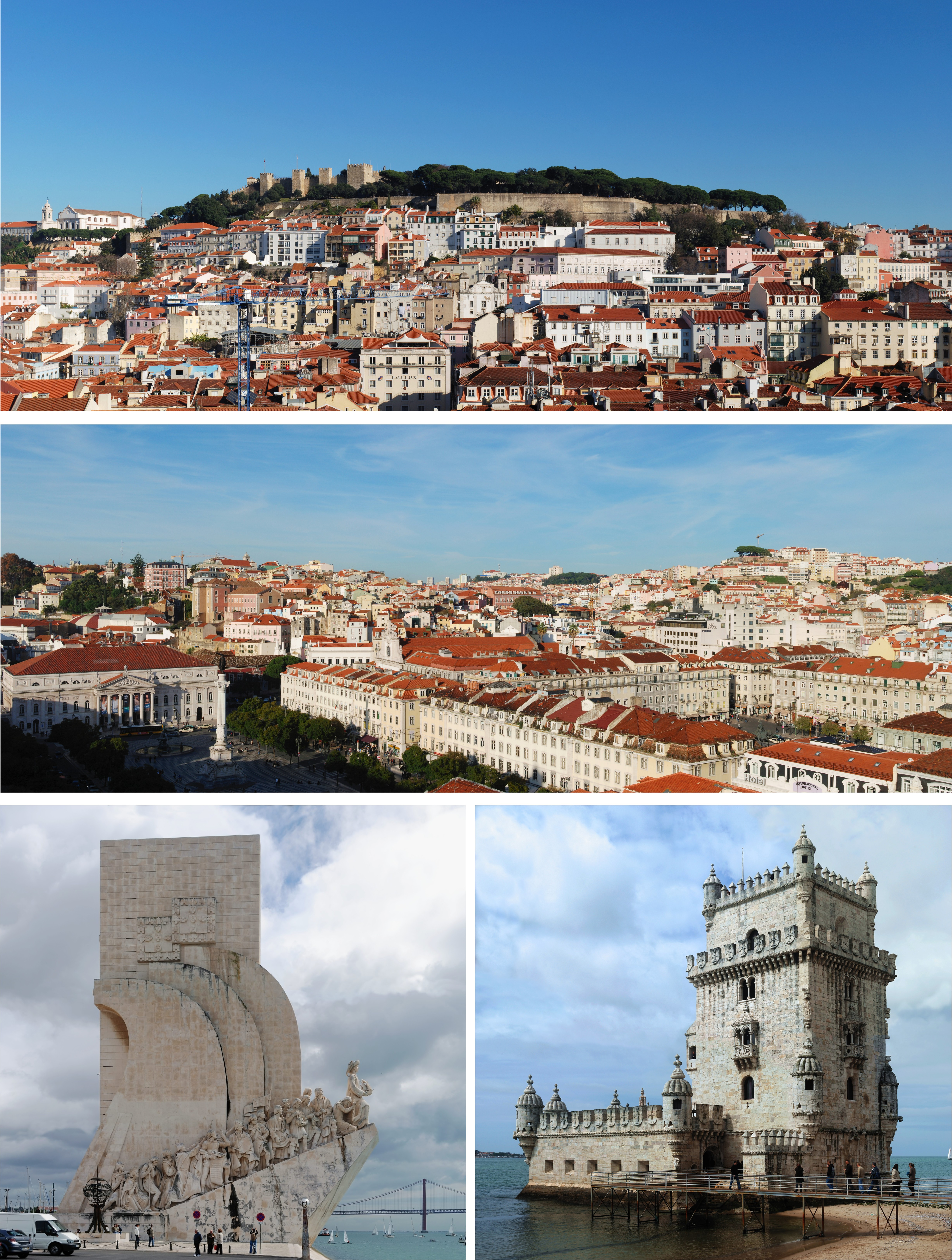 Montage of photos from Lisboa. From topo to bottem: the Castle of São Jorge, the center, with the Rossio in the foreground; the Monument to the Portuguese Discoveries and the Tower of Belém